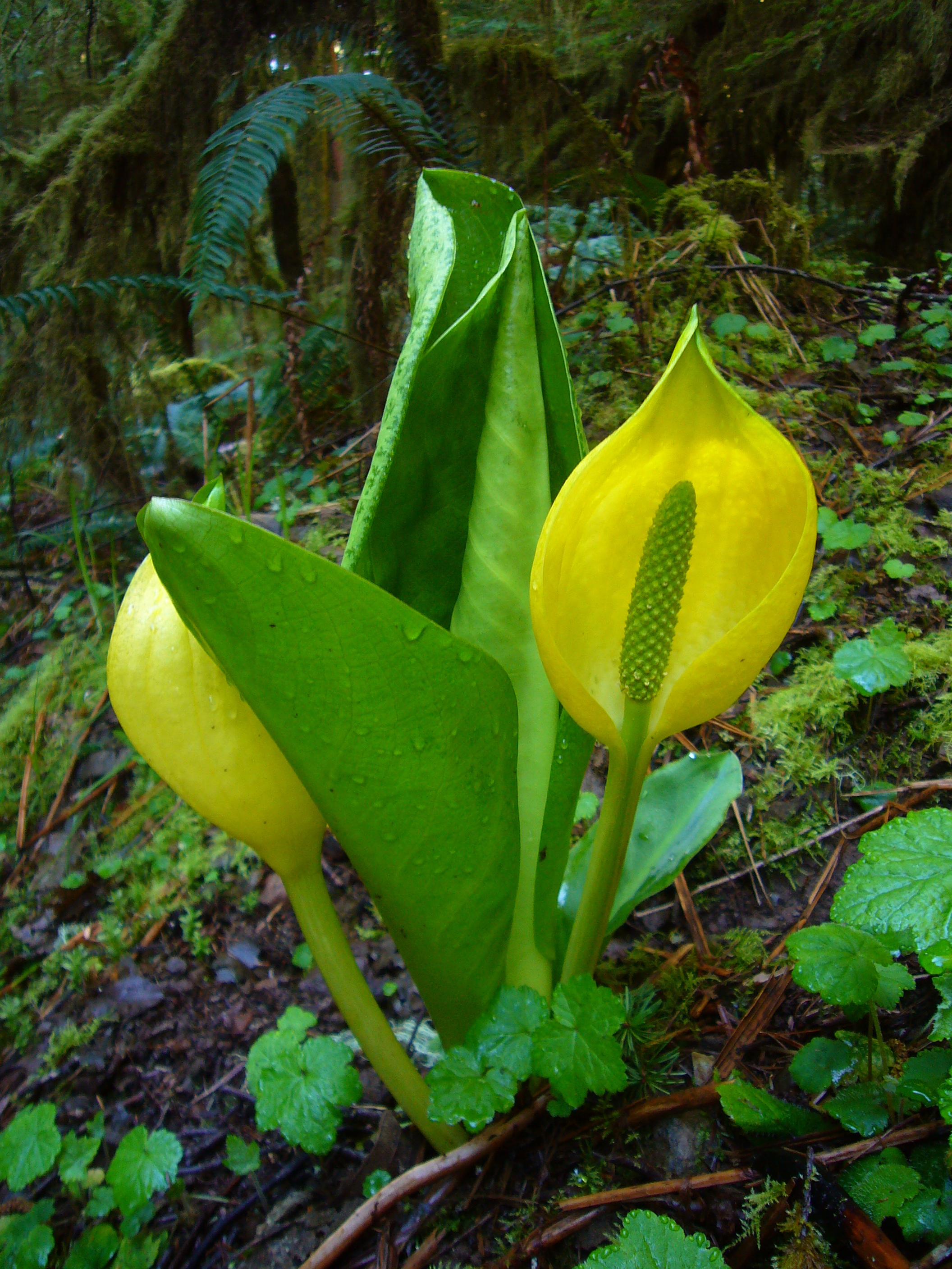 Photo of Western Skunk Cabbage, Goodman Creek, Eugene, OR.